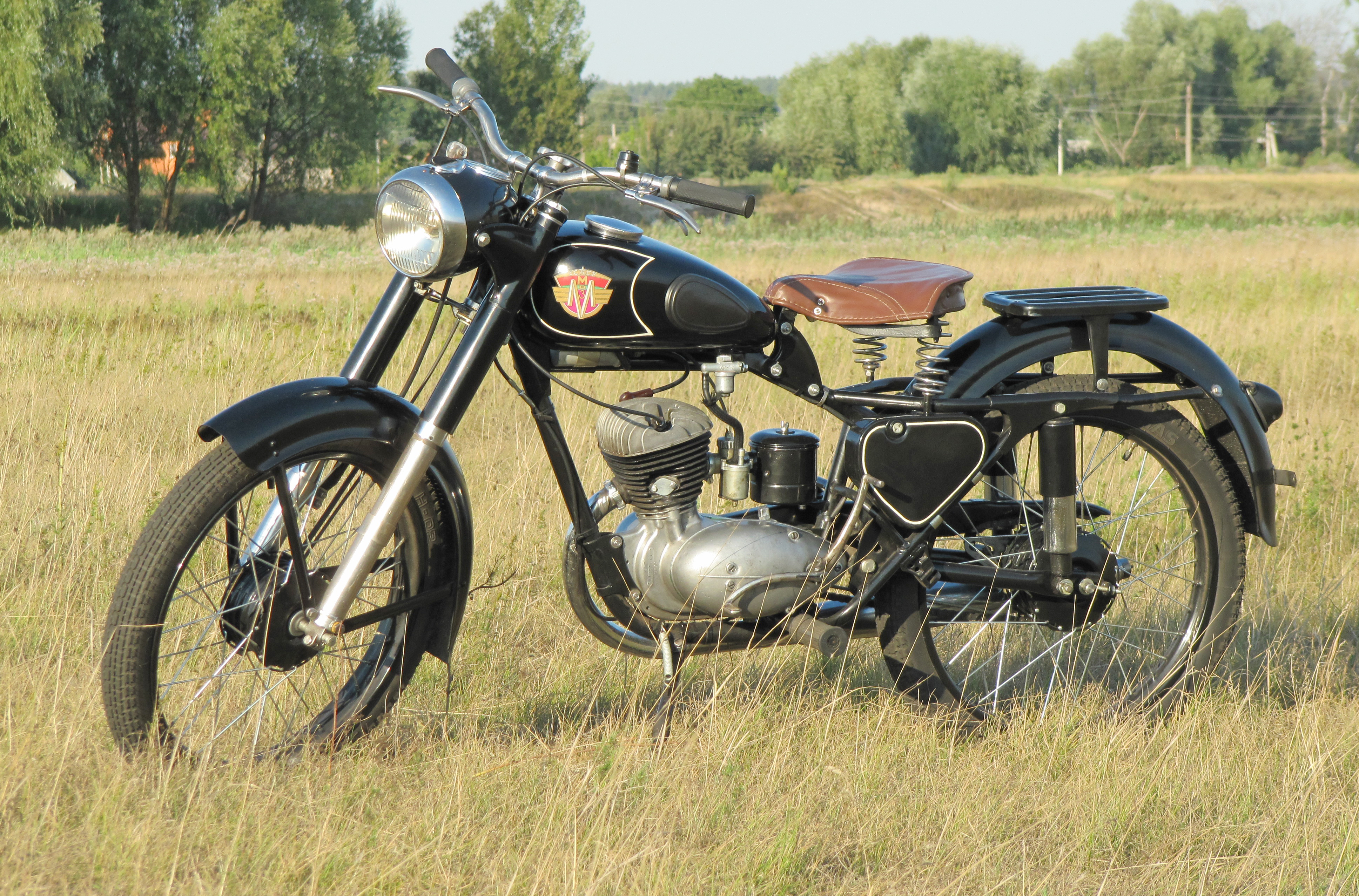 USSR Motorcycle Minsk M-103, 1964